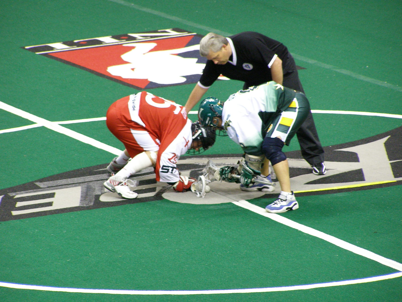 Faceoff between England and Australia in the 2007 World Indoor Lacrosse Championship in Halifax